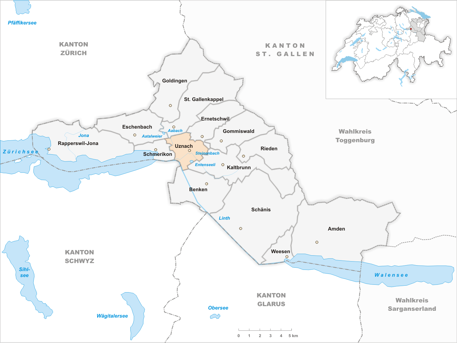 Municipality Uznach